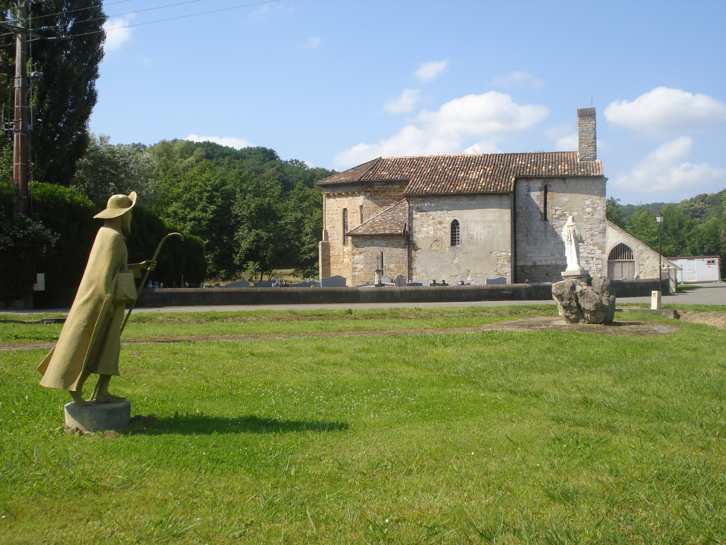 L'Hôpital-d'Orion (Pyr-Atl, Fr) church and statue of a pilgrim